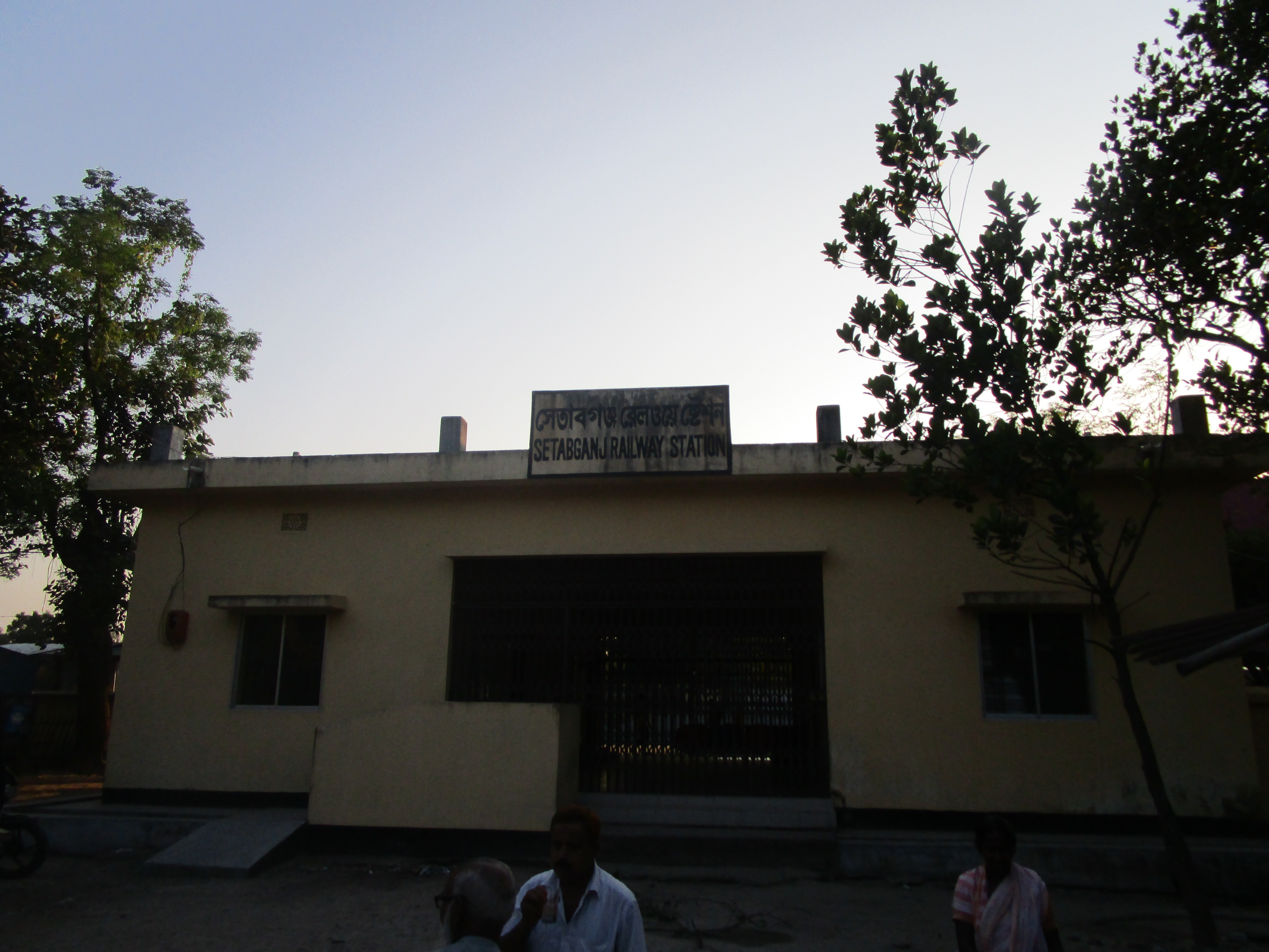 The office of Setabgonj Railway Station.